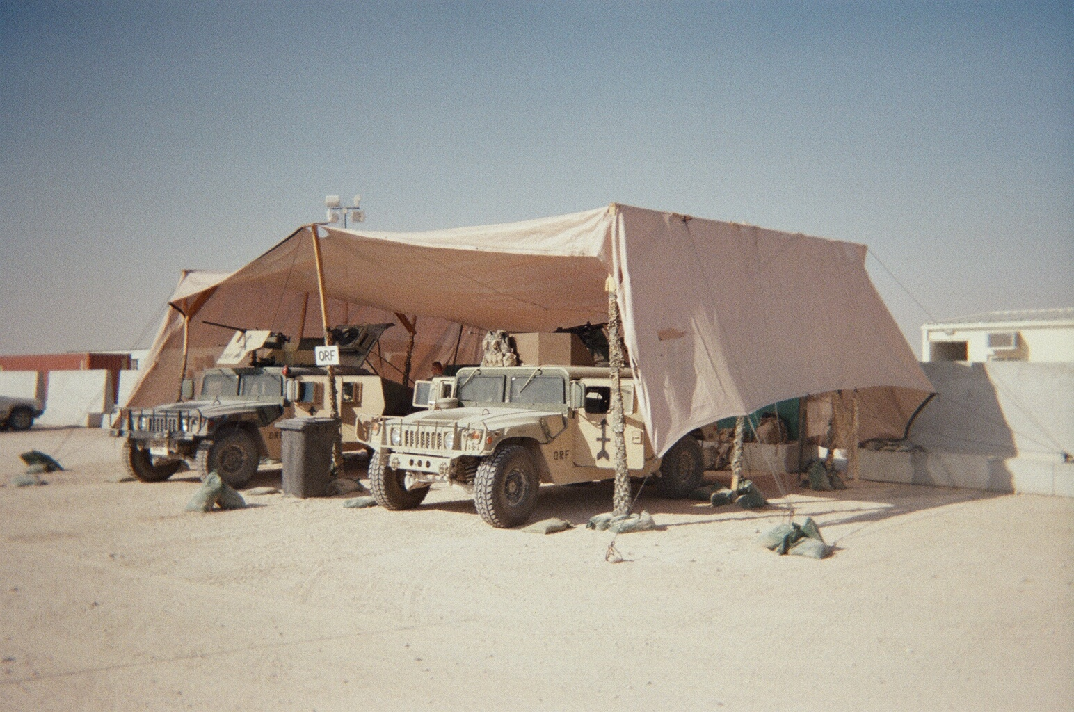 The QRF (quick reaction force) staging area at Camp Buehring, Kuwait circa 2005